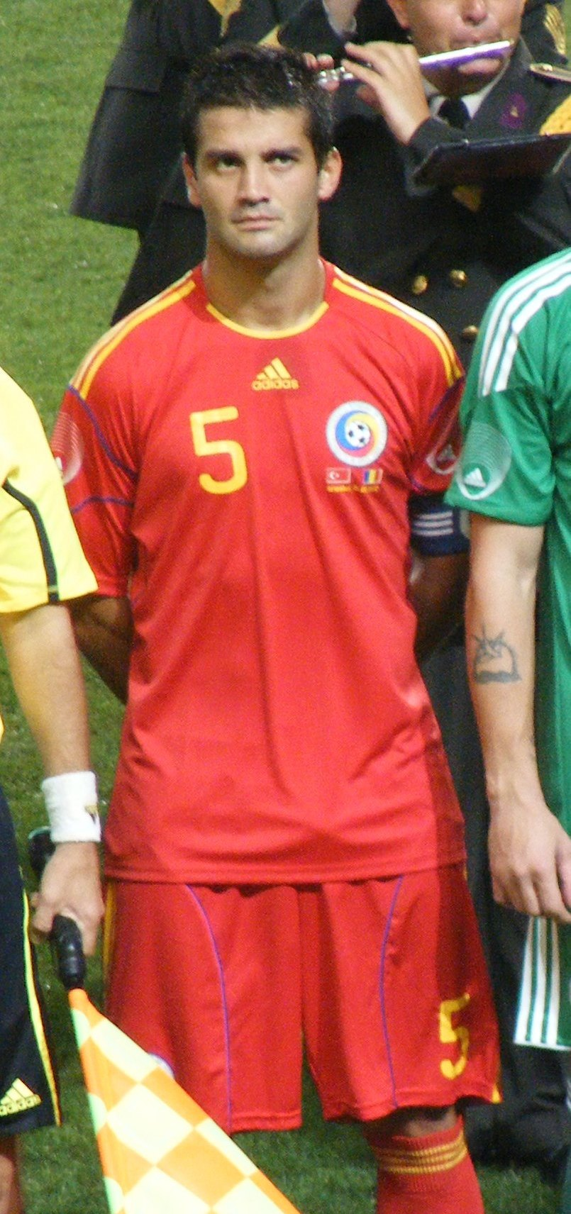 Chivu in national jersey at match vs Turkey in 11st Aug 2010, Wednesday at Fenerbahce Stadium, Istanbul